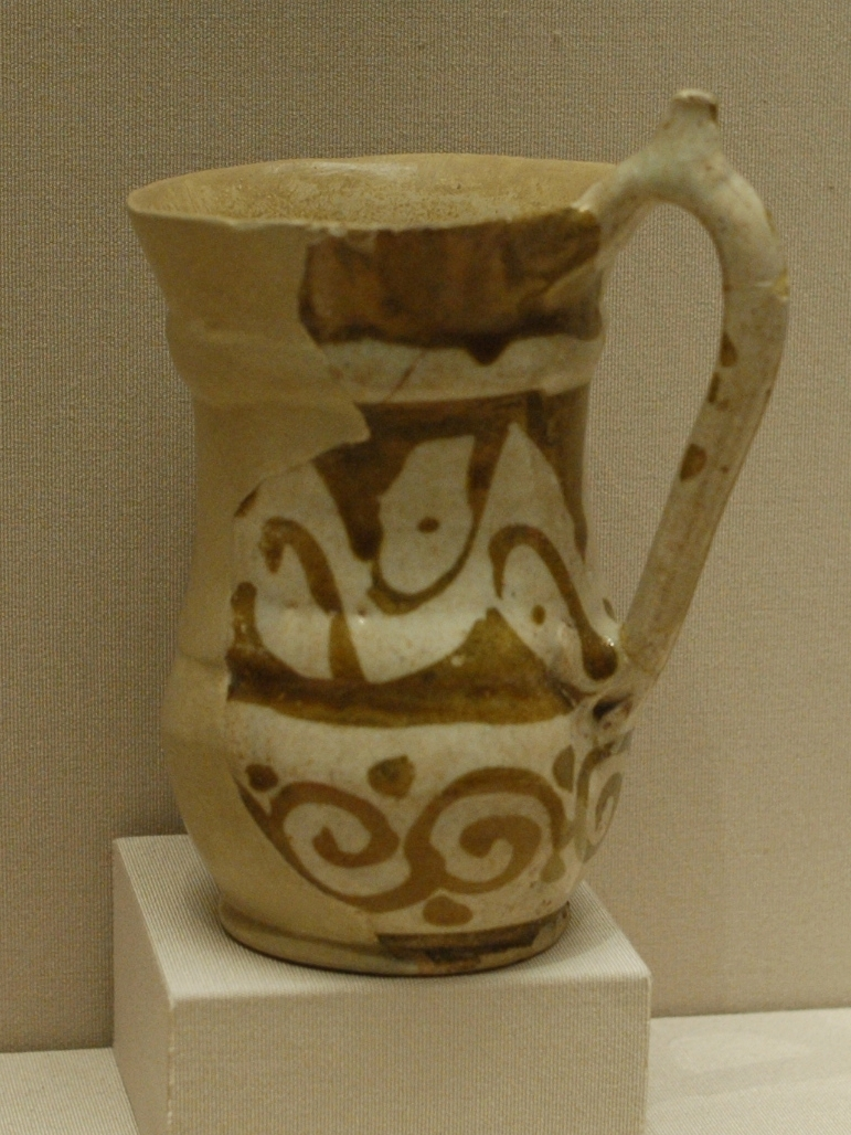 Pitcher.